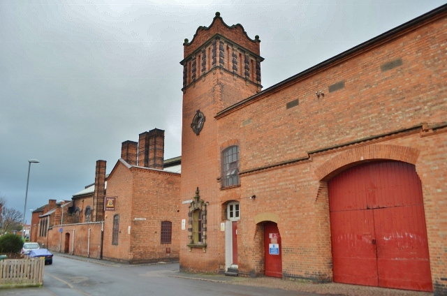 Taylor's Bell Foundry, Freehold Street, Loughborough, Leicestershire, England, seen from the northwest